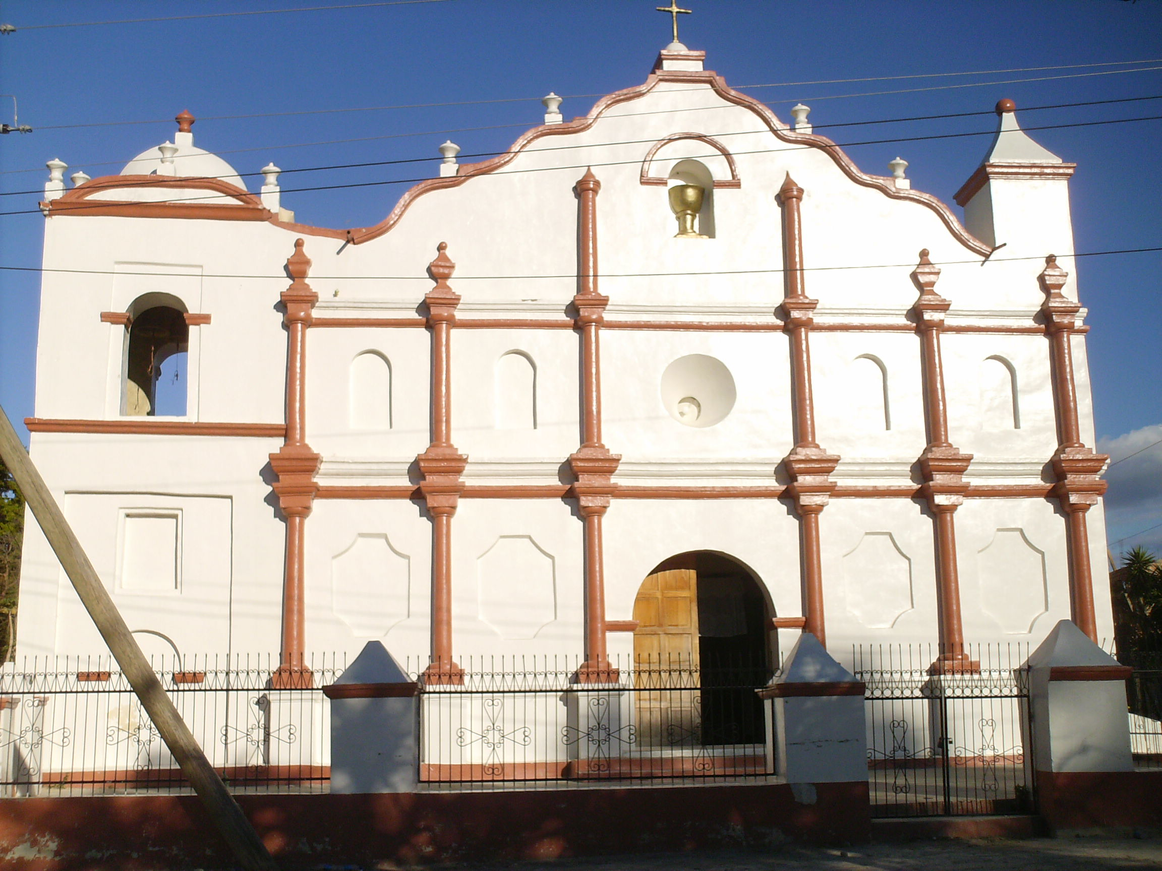 Piraera, municipality in the Honduran department of Lempira.